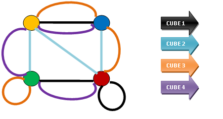 The images are steps to solve the instant sanity problem